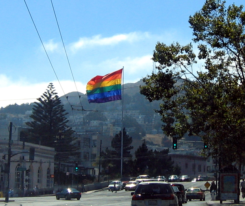 The corner of Market, Castro, and 17th on 06-Sep-2006